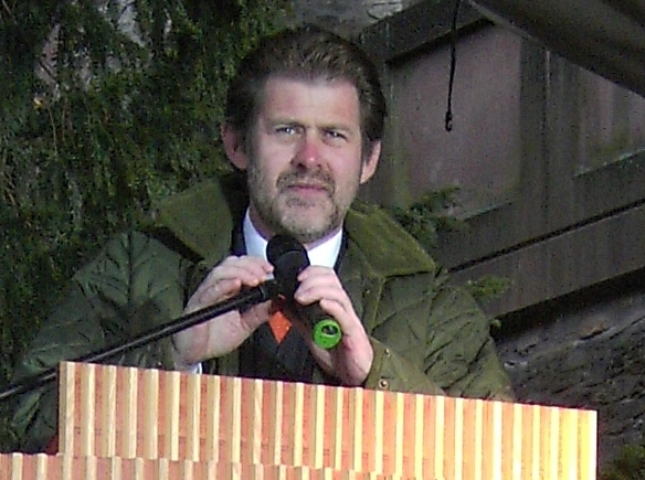 Heinz-Peter Haumann, lord mayor of the city of Gießen, welcoming the university´s freshmen of the 2007/08 winter semester